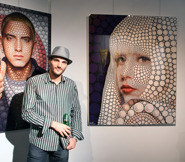 Ben Heine Before Interview